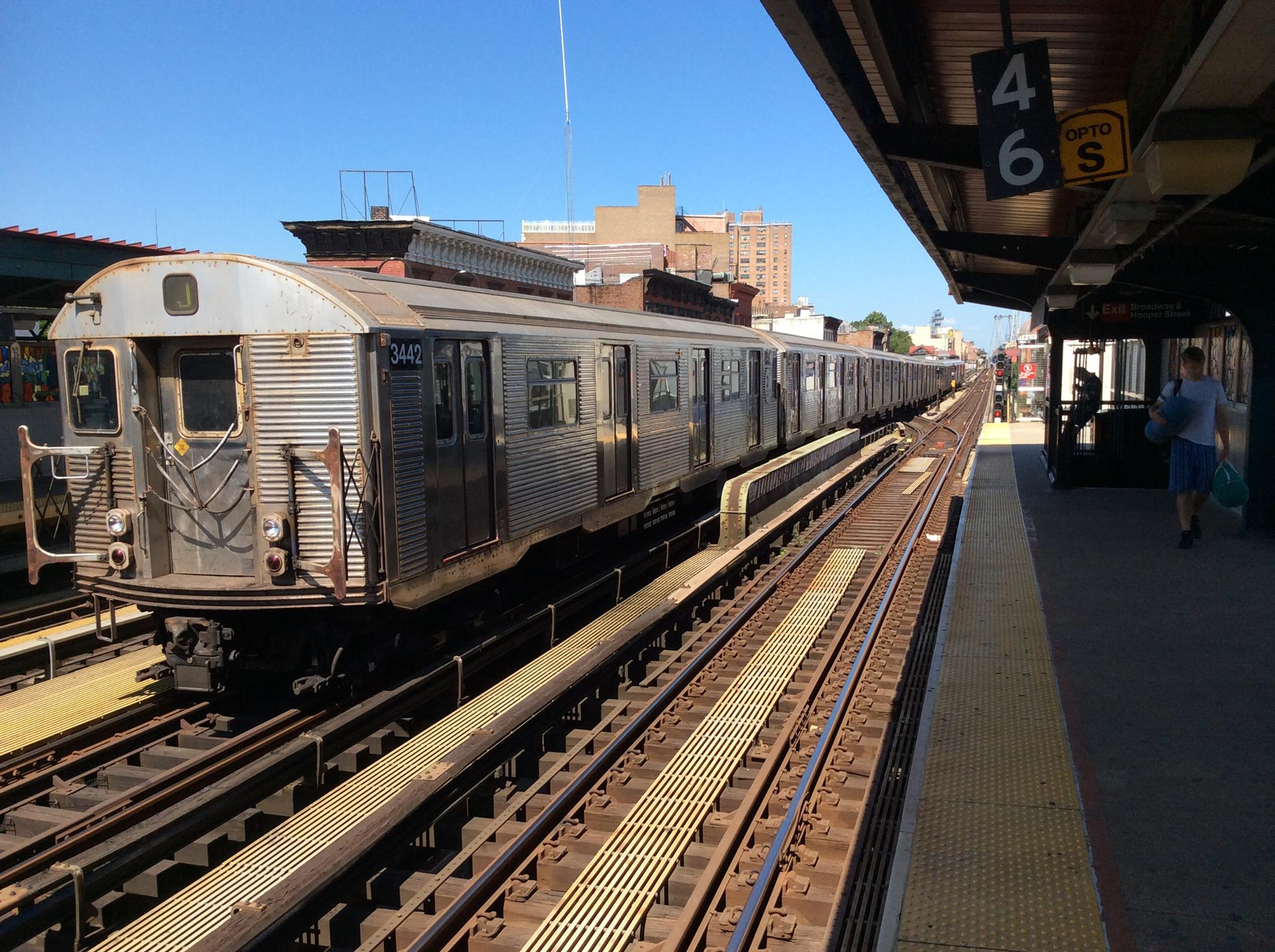 Southbound J train skipping Hewes St